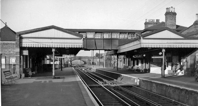 Brentford Central Station. View eastward, towards Barnes and Waterloo; ex-LSWR Barnes - Hounslow/Feltham loop line, still active.